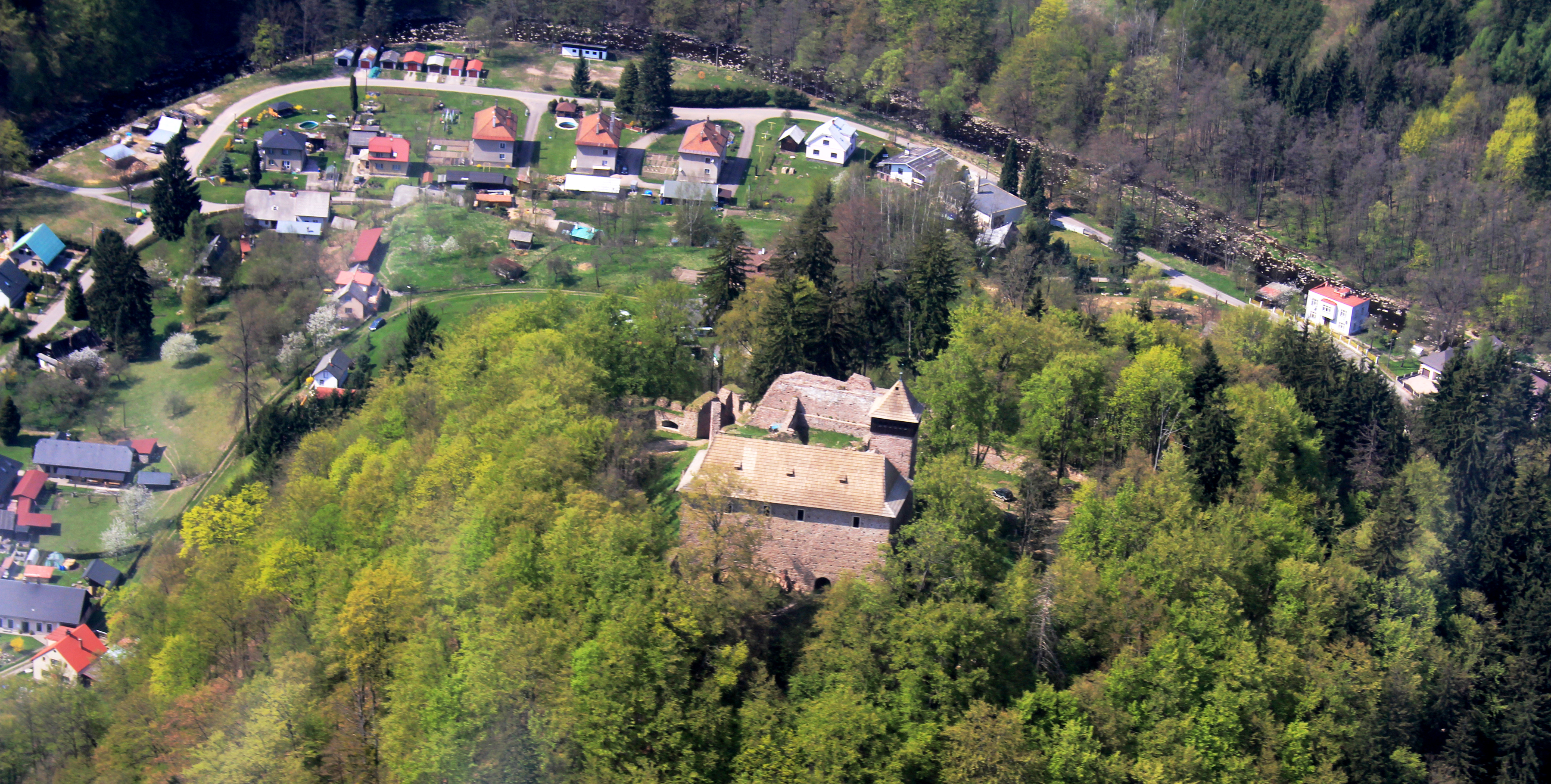 Part of village Litice nad Orlicí with ruin of old Litice Castle from air, eastern Bohemia, Czch republic